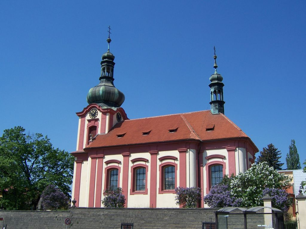 Prague-Uhříněves, church